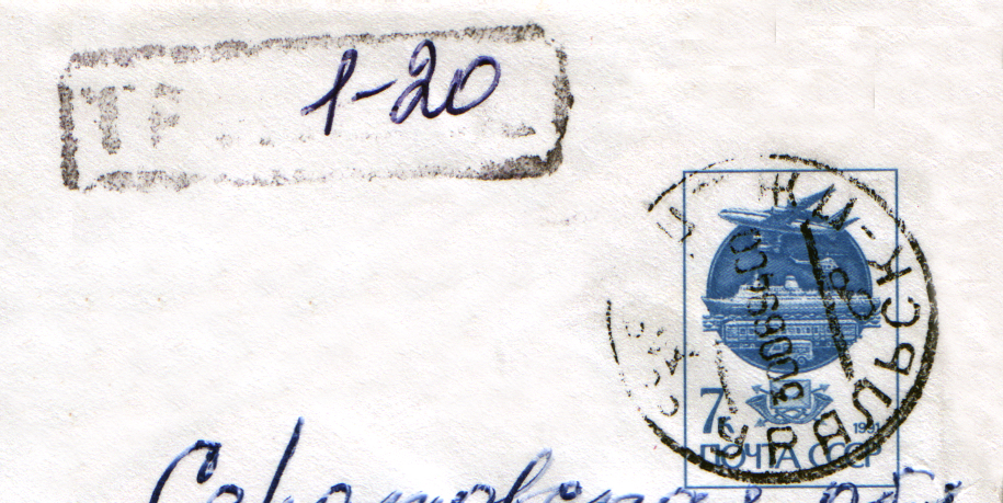 Provisional stamp of Uralsk, Kazakhstan, 1994